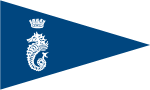 Burgee of the Royal Ocean Racing Club. Seahorse with Crown on Burgee